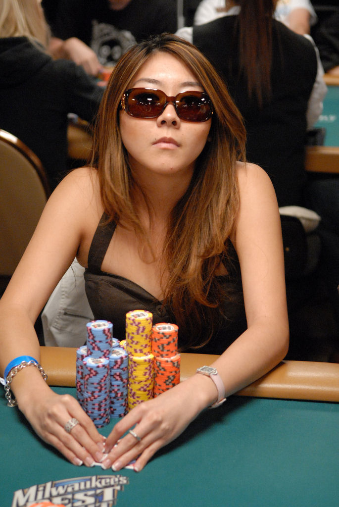 Maria Ho at the 2007 World Series of Poker.